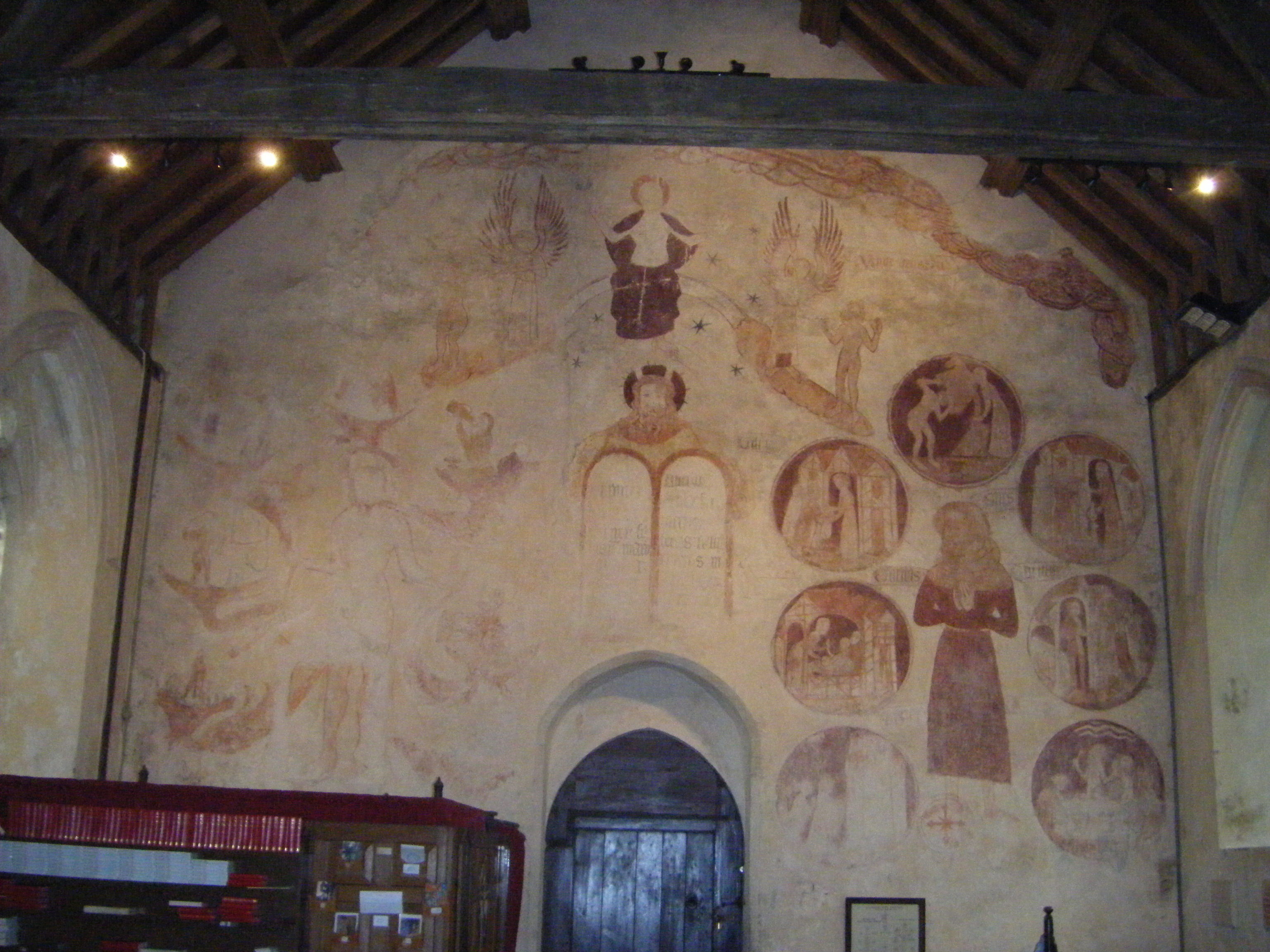 Wall painting on the west wall of St. George's parish church, Trotton, West Sussex.